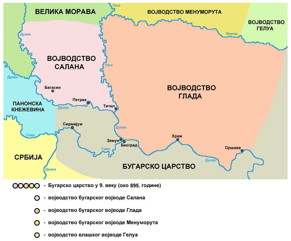 historical map of medieval duchies of Bulgarian dukes Salan and Glad (9th century) - Serbian language version